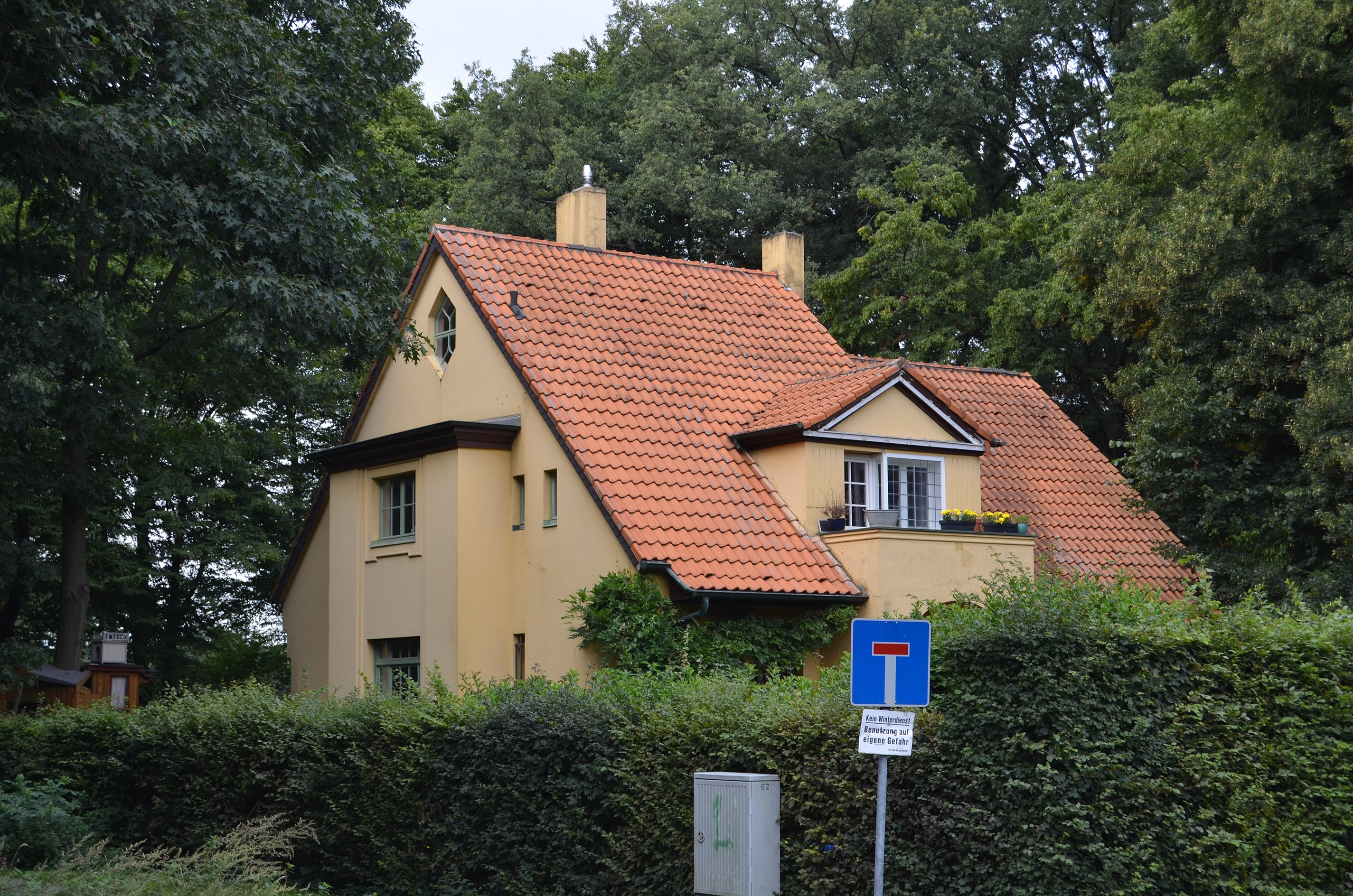 Krefeld (North Rhine-Westphalia, Germany) – Künstlerhaus ("artists' house") This image shows a heritage building in Germany, located in the North Rhine-Westphalian city Krefeld (no. 95). This photograph was taken with a Nikon D7000